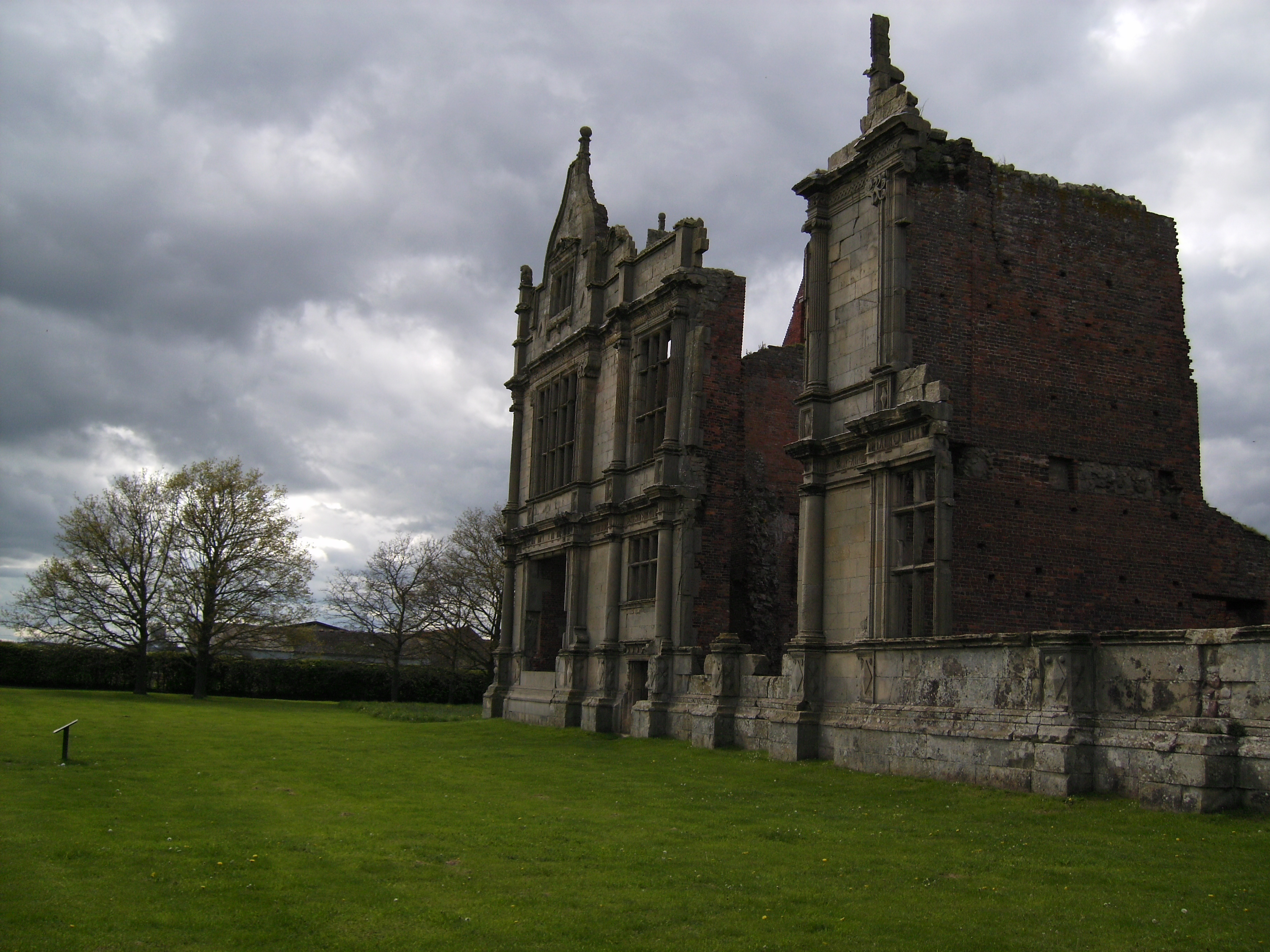 Part of south frontage of the later Elizabethan house. Moreton Corbet Castle, Shropshire.